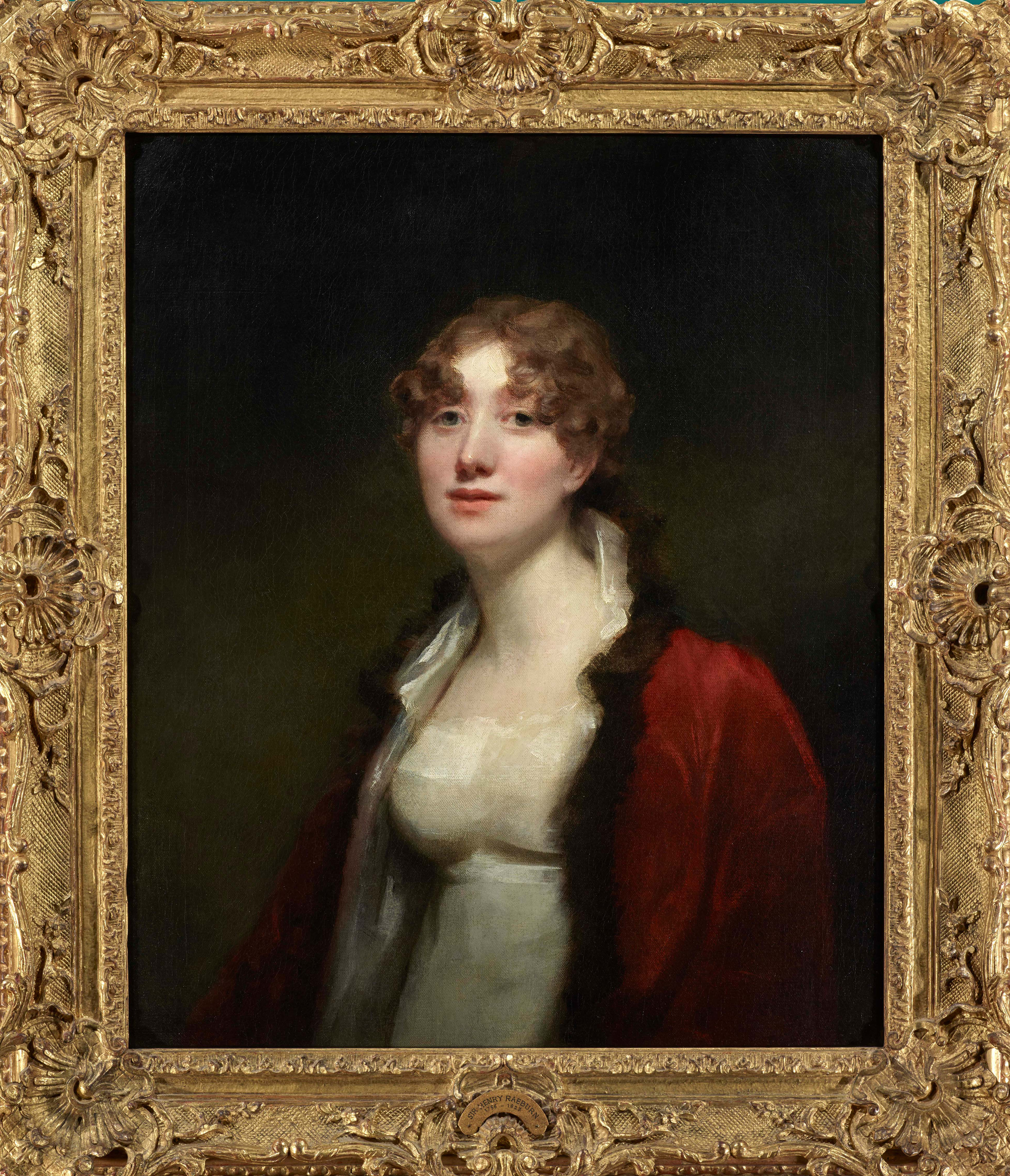 Oil on Canvas Painted circa 1811 Canvas size: 30 x 25 inches (76.25 x 63.5 cm)